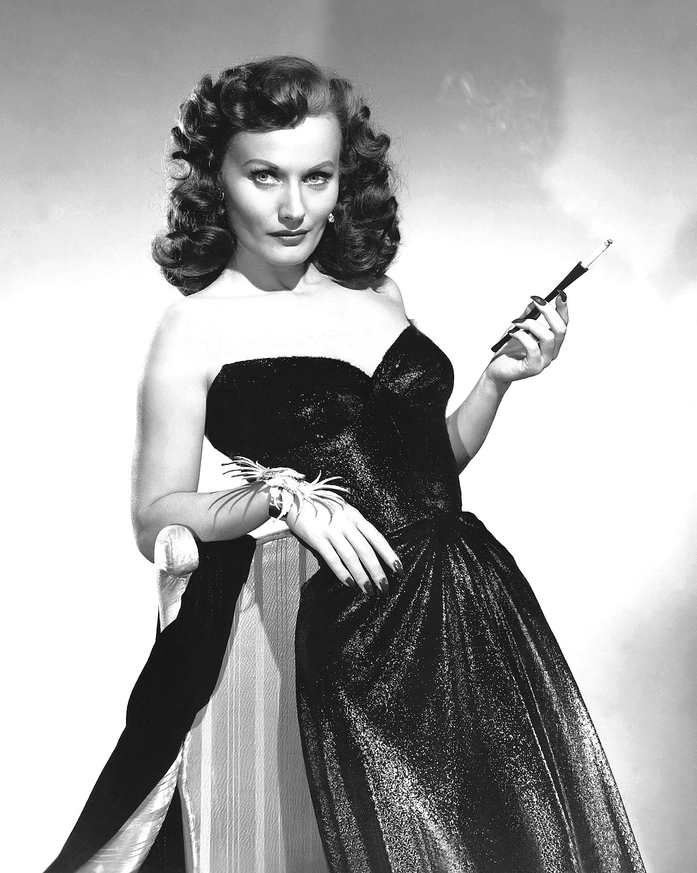 Photo of Florence Marly from a 1949 ad for the film Tokyo Joe in The trade publication Showmen's Trade Review. Note that the uploaded photo is a larger, better copy of the one of Marly which appeared in the film ad. Columbia did not mark the ad as copyrighted; copyrights for Showmen's Trade Review would not apply to the ad. (A check of periodical renewals for the years 1976 and 1977 indicate Showmen's Trade Review did not renew their copyright for 1949 issues of the trade journal.) There are no copyright marks on the ad. US Copyright Office page 3-magazines are collective works (PDF) "A notice for the collective work will not serve as the notice for advertisements inserted on behalf of persons other than the copyright owner of the collective work. These advertisements should each bear a separate notice in the name of the copyright owner of the advertisement."